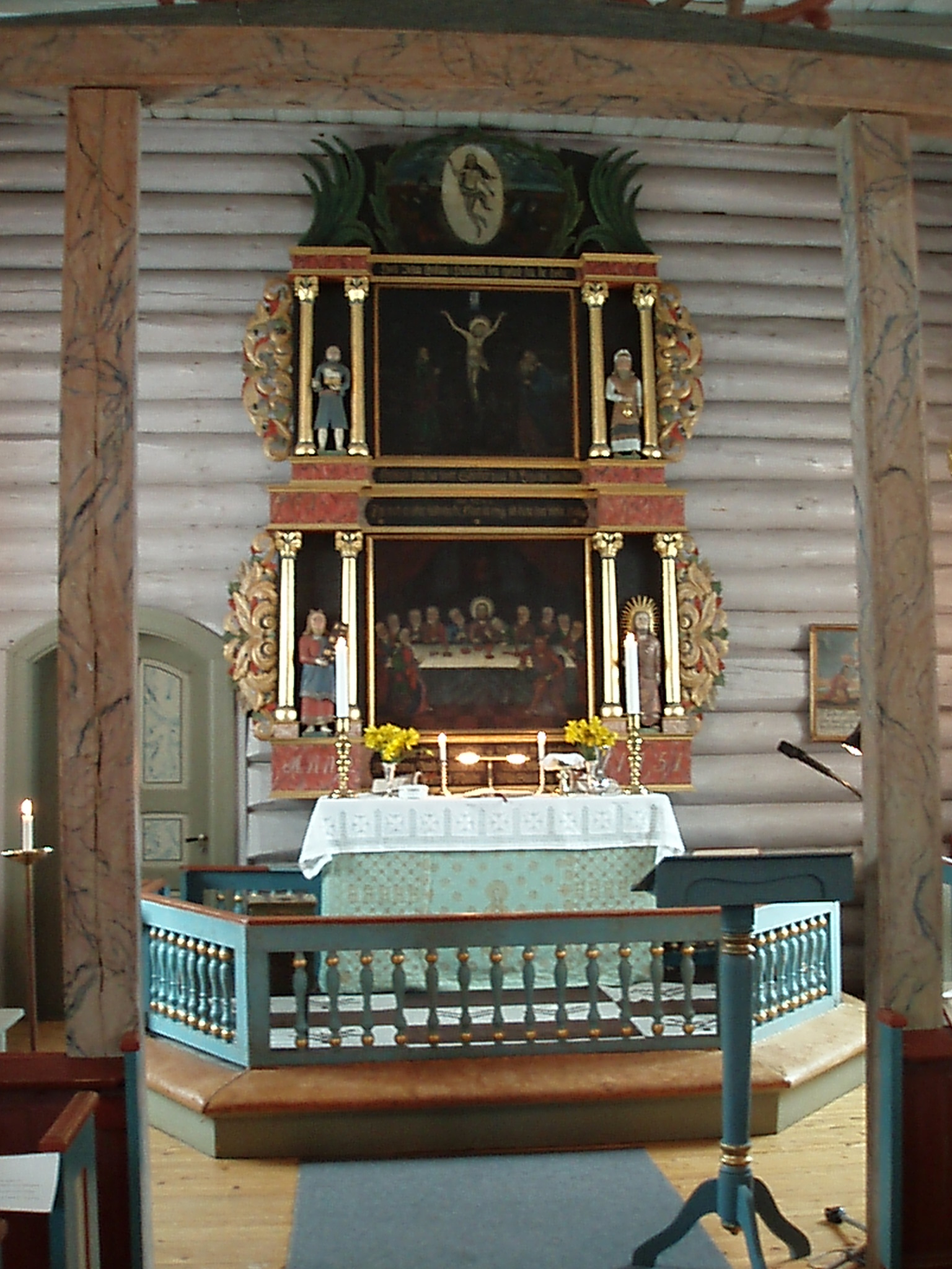 Altar of Tretten church